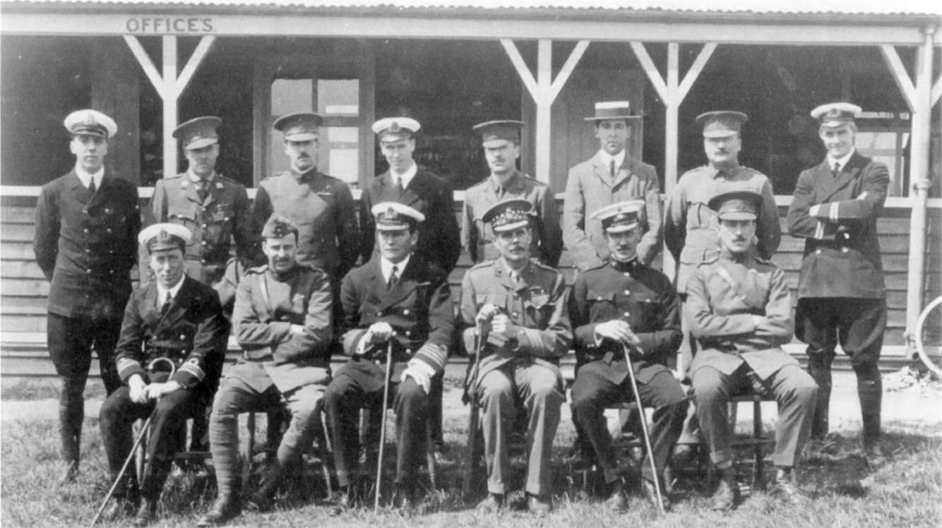 Photograph of Central Flying School (CFS) Staff taken at Upavon Aerodrome, Wiltshire, England, in January 1913. The commandant, Capt Godfrey Paine RN is seated in the front row, shown third from the left. Major Hugh Trenchard is also seated in the front row, shown third from the right. Lieutenant Frank Kirby VC is shown standing, one place in from the right in the photograph. All members Back row (standing): From left to right: Sub-Lieutenant R E C Peirse RN, Lieut Conran, Capt A G Board, Asst. Paymaster J H Lidderdale RN, Capt E G R Lithgow RAMC, Mr G Dobson MA, Lieutenant F H Kirby VC, Eng. Lieutenant C D Breese RN. Front row (sitting): Lieut Commdr Shepherd RN, Capt A C H MacLean, Capt G M Paine CB MVO RN (Commandant), Major H M Trenchard CB DSO (Assistant Commandant), Major E L Gerrard, Capt T L Webb-Bowen.